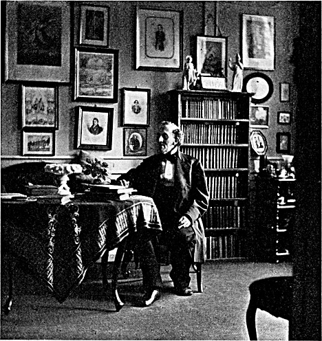 Hans Christian Andersen (1805-1874), Danish writer